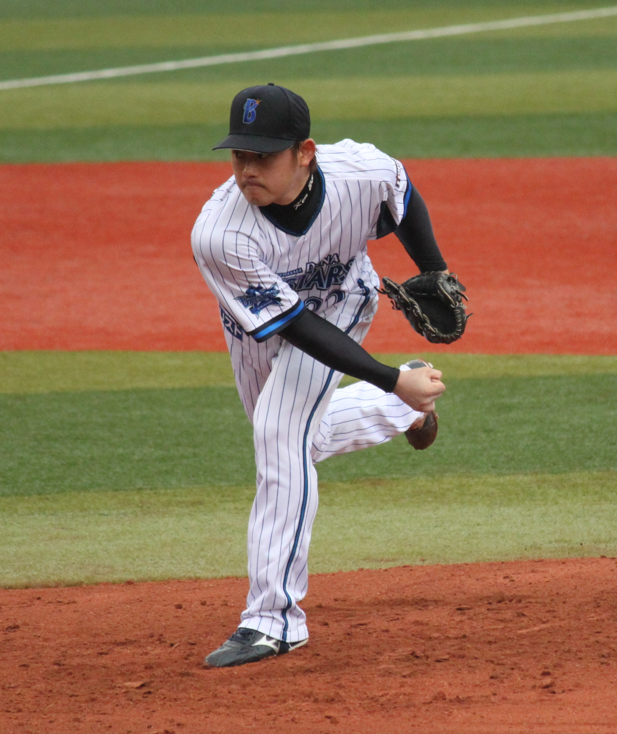 Kentaro Takasaki, pitcher of the Yokohama DeNA BayStars, at Yokohama Stadium.